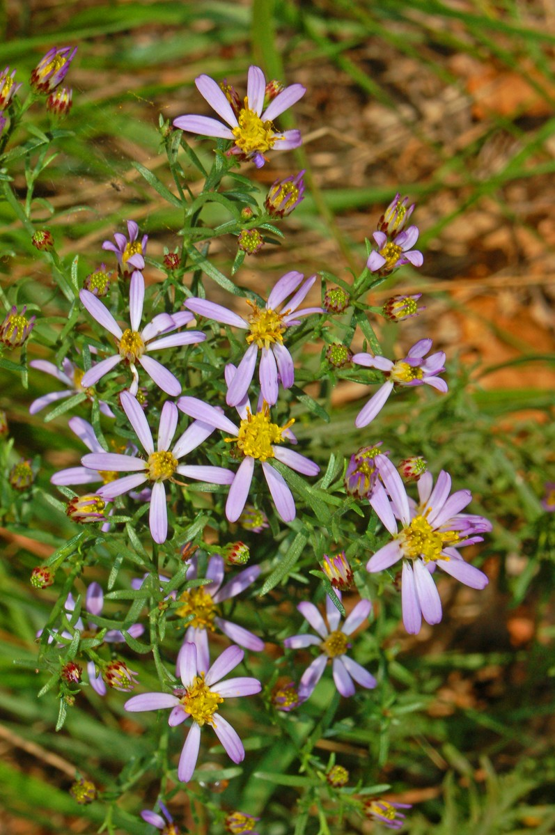 Aster sedifolius - Genova, Italy